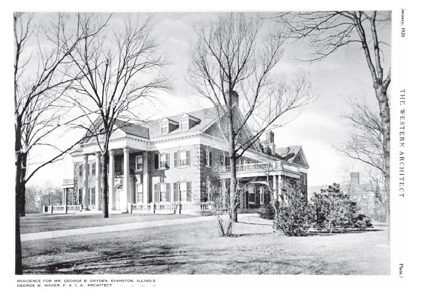 Photograph from the north-east of the residence of George Dryden, Evanston, IL. George Washington Maher, architect. 1920